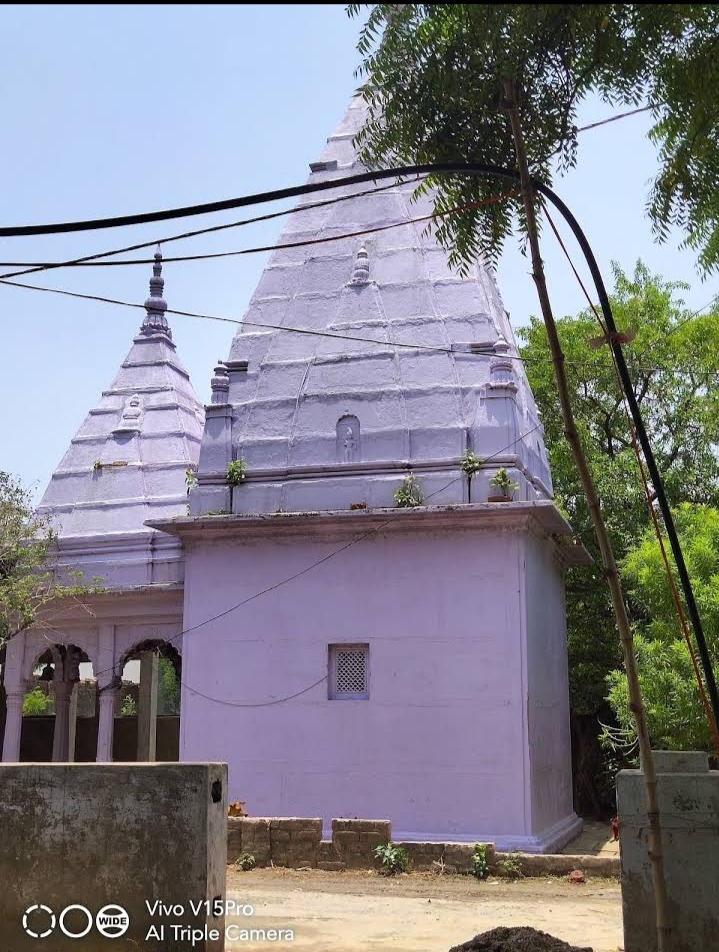 Shiv Mandir, Vishunpura, Chandauli, UP